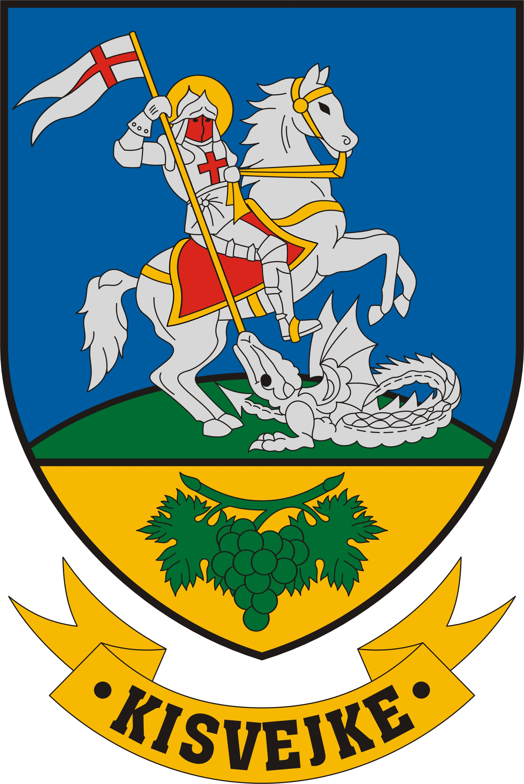 Coat of arms of Kisvejke, Hungary